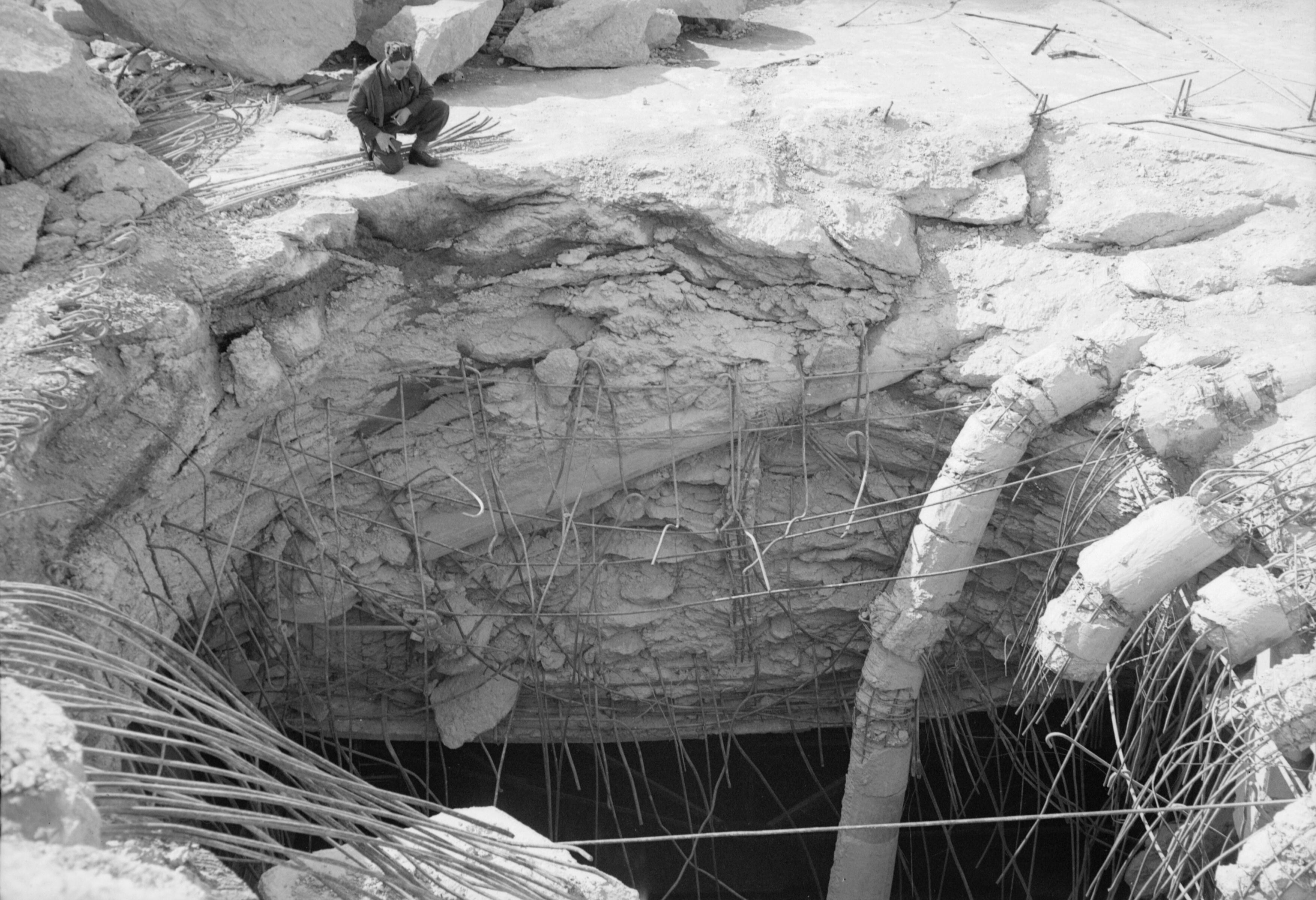 Royal Air Force Bomber Command, 1942-1945. An RAF officer inspects the hole left by a 22,000-lb deep-penetration 'Grand Slam' bomb which pierced the reinforced concrete roof of the German submarine pens at Farge, north of Bremen, Germany. this was the result of a daylight raid mounted by 18 Avro Lancasters of No. 617 Squadron RAF on 27 March 1945, in which two direct hits by 'Grand Slams' caused much of the partially-completed roof to collapse.